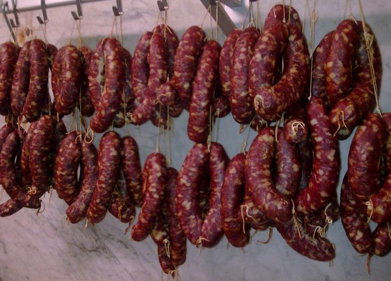 A tipical Nepi gastronomic's product : The "Salame cotto"